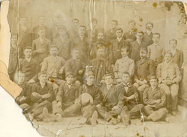 Skopje Bulgarian Pedagogical School Teachers and Students